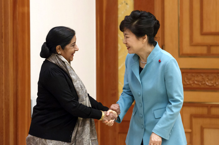 President Park Geun-hye (right) shakes hands with Indian Minister of External Affairs Sushma Swaraj at Cheong Wa Dae on December 29.